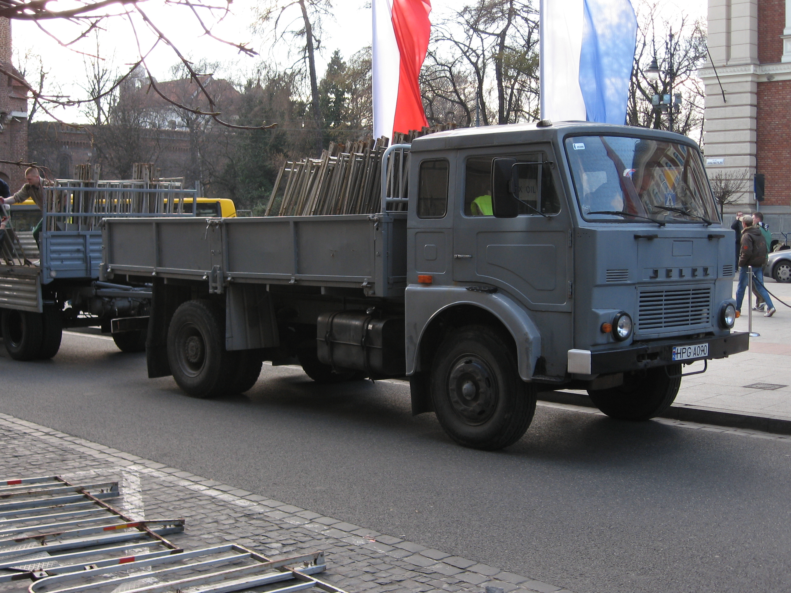 Grey Jelcz truck of the Policja on Plac Jana Matejki in Kraków, Poland.